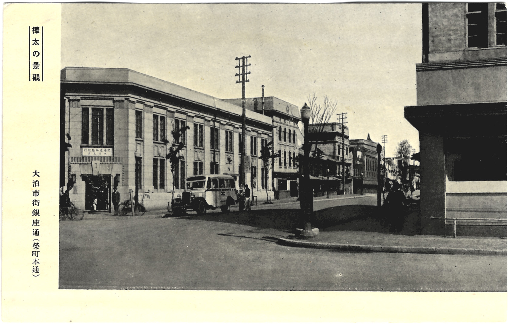 Japanese postcard of Sakae street of Oodomari in Karafuto (now Korsakov, Sakhalin region, Russia)